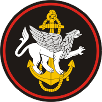 810th marine brigade patch